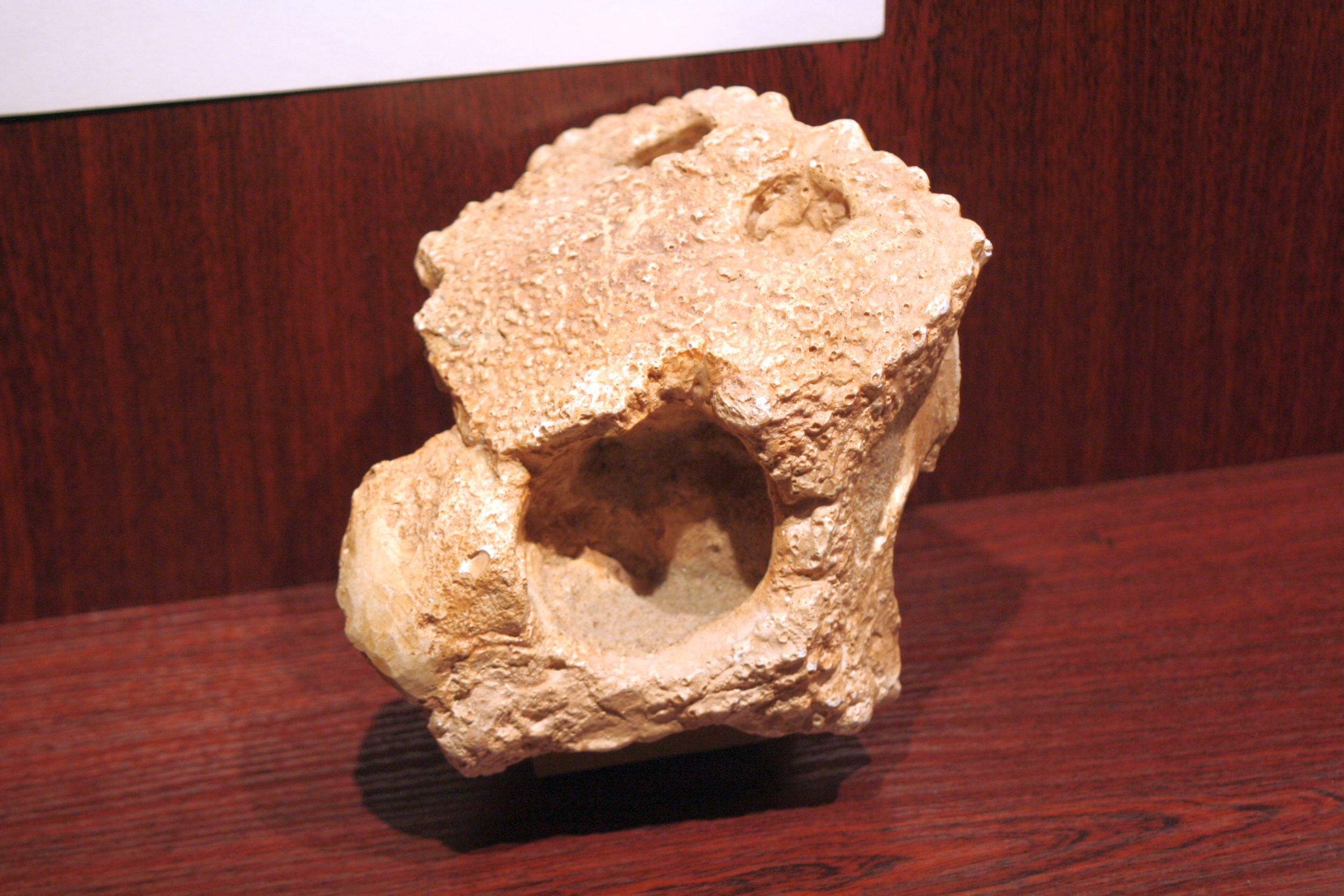 Skull of Homalocephale, Warsaw Museum of Evolution